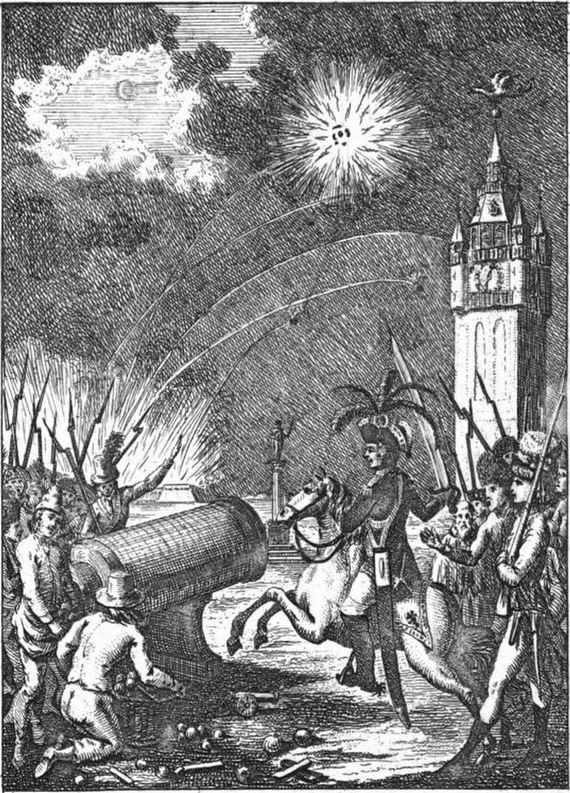 Engraving picturing the victory of the patriots in the Four Days of Ghent (1789)